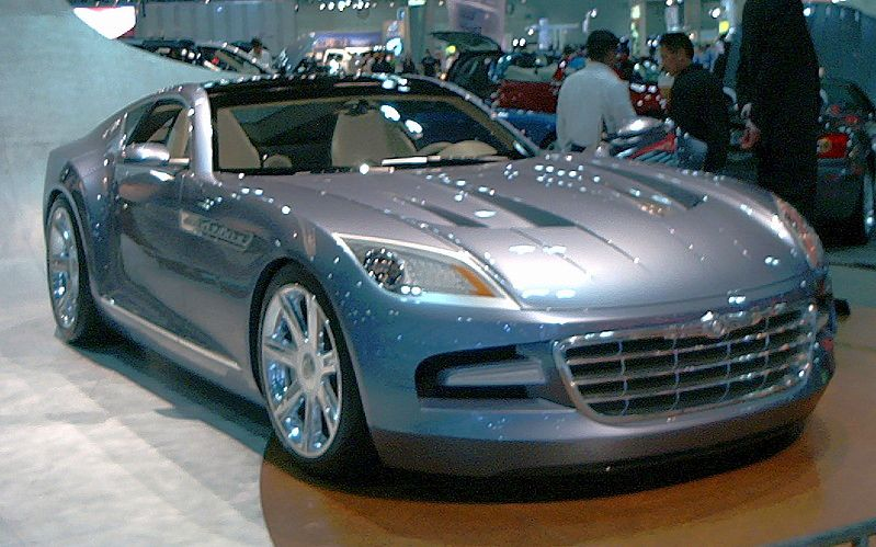 The Chrysler Firepower at the 2006 Greater Los Angeles Auto Show. (Photo taken by Covinan)